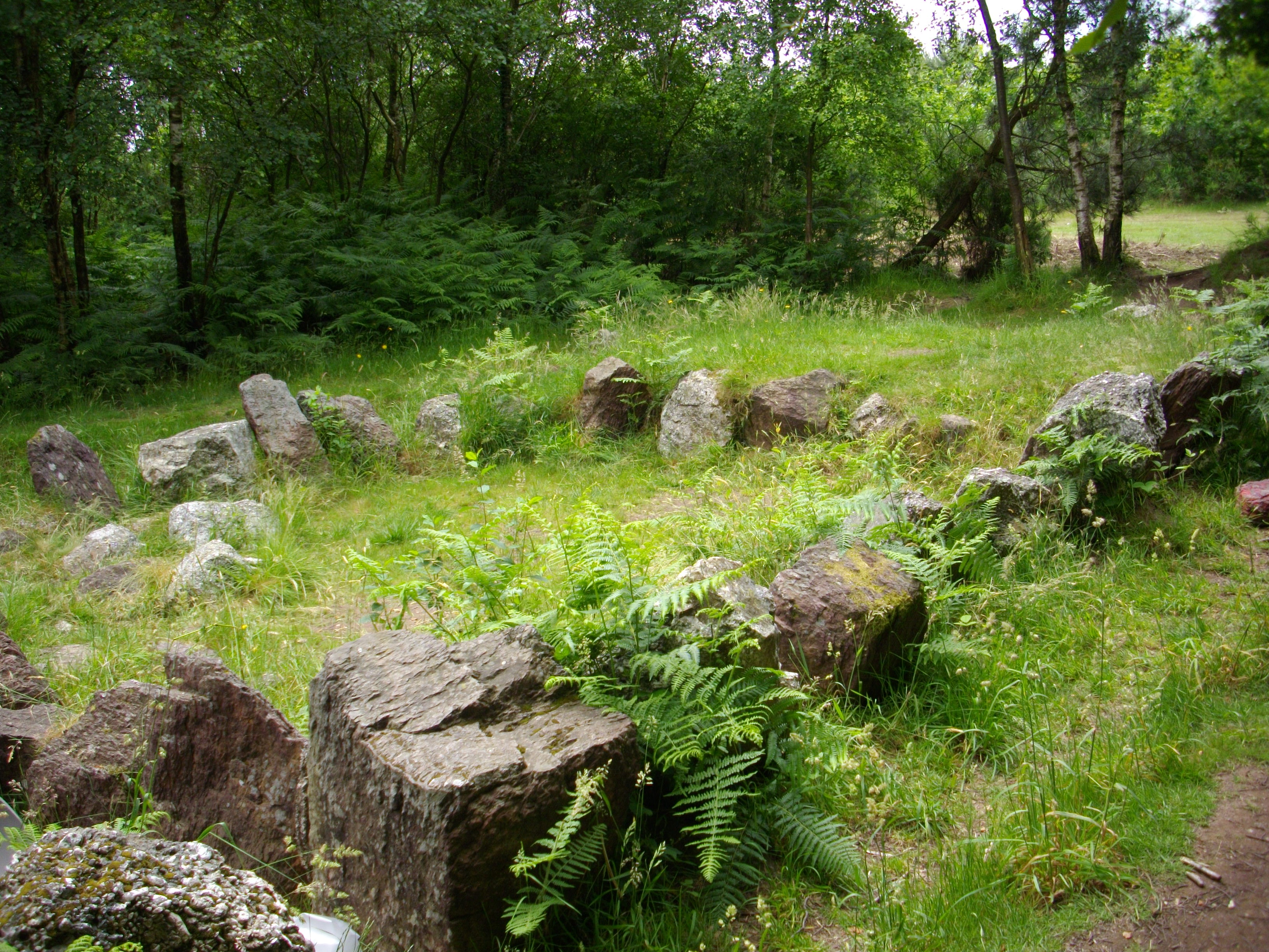 "Jardin aux Moines", a megalithic site in Paimpont forest